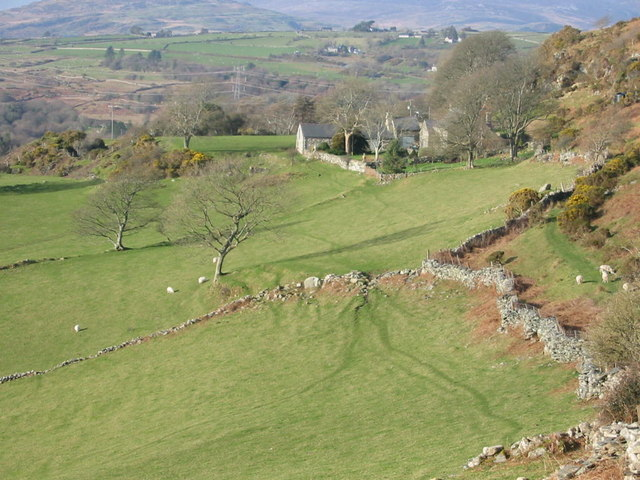 Bron-y-foel This historic farmhouse is now a private residence